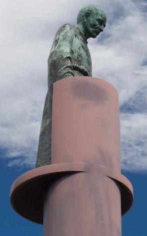 Estátua de Bartolomeu da Costa